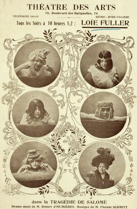 Loie Fuller (1862-1928) programme cover, Théâtre des Arts (now Théâtre Hébertot), Paris, 1907.